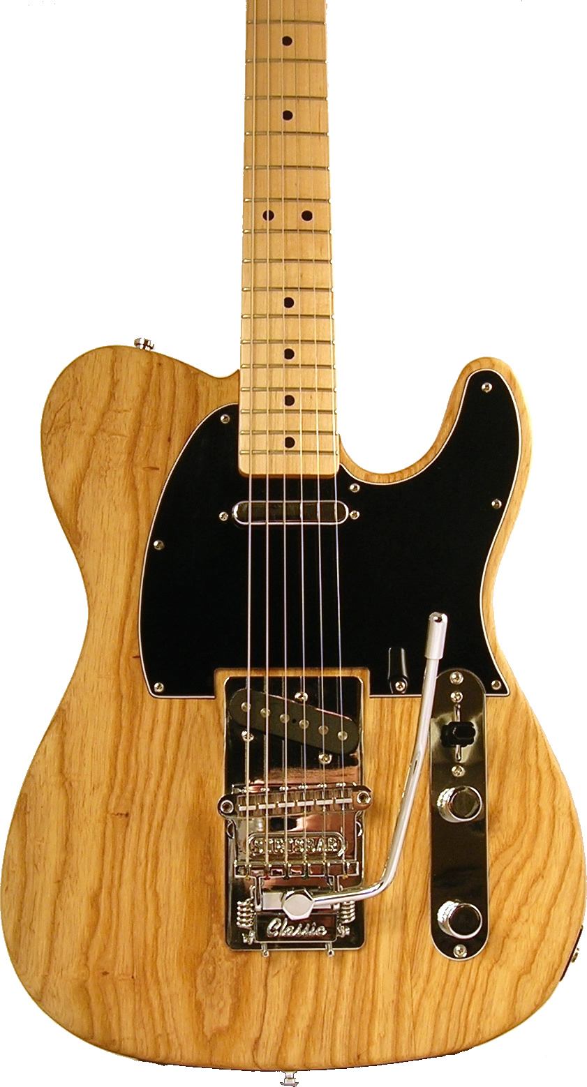 Picture of a Fender Telecaster with attached Stetsbar